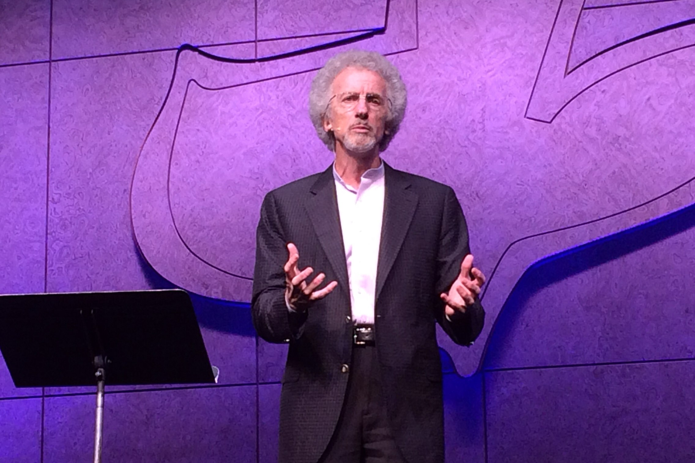 Philip Yancey speaking at Maranatha Chapel in San Diego County, California, United States